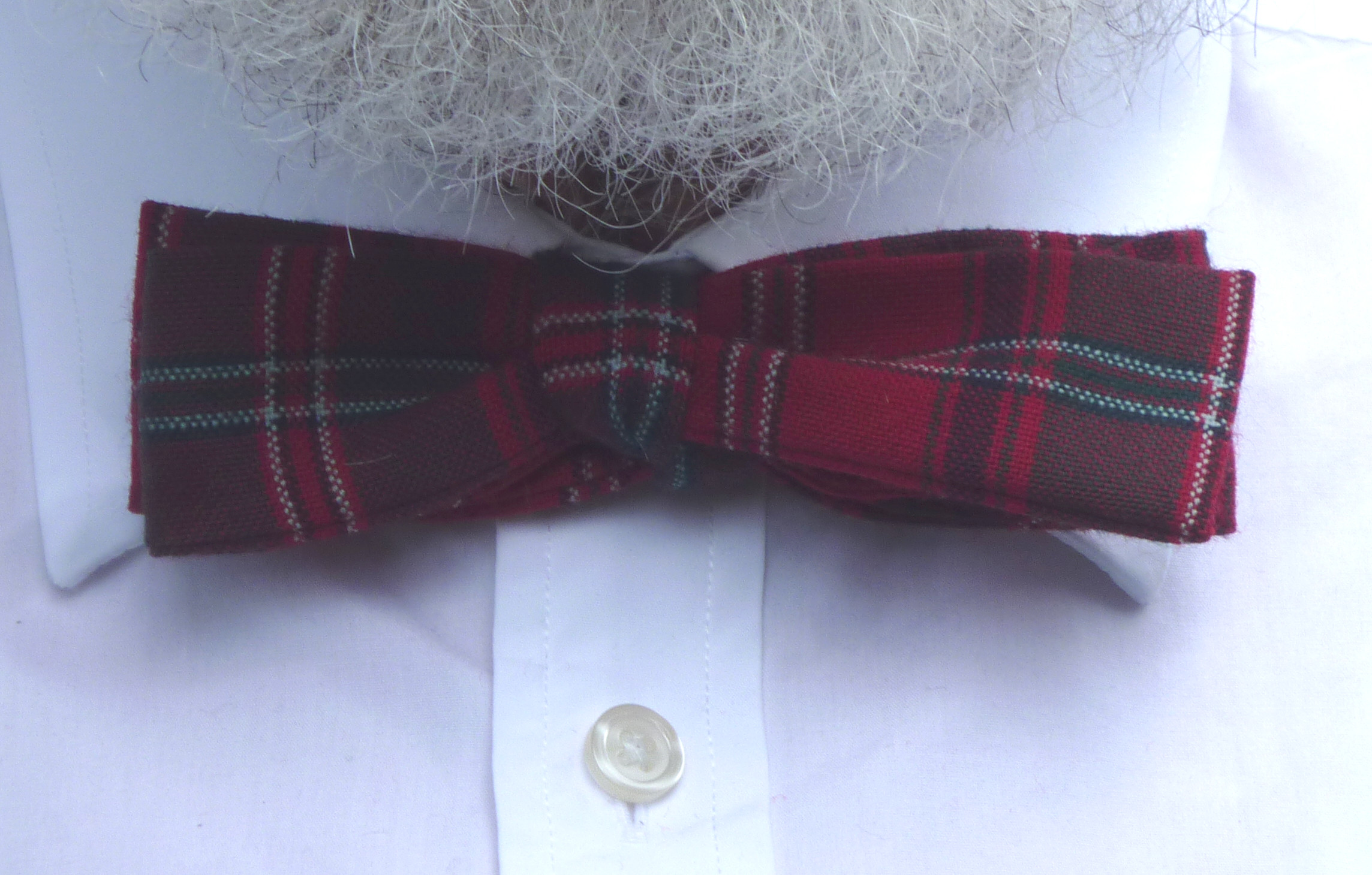 Bowtie, type Batwind, wool, self tied